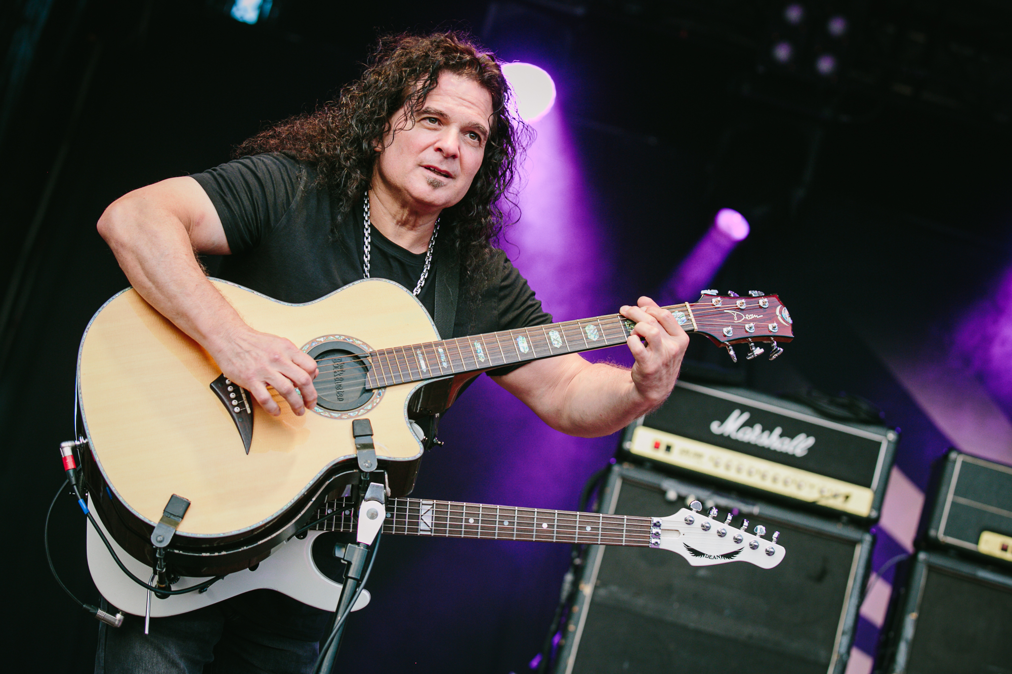 UFO at Burg Herzberg Festival 2019